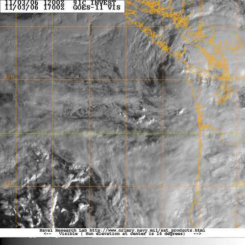 The remnants/remains of the unusual Storm 91C making landfall. This was originally from Wikinews. Its PD and other info is reproduced verbatim with notes and additions. Original description was: "Storm 91C making landfall in Washington."